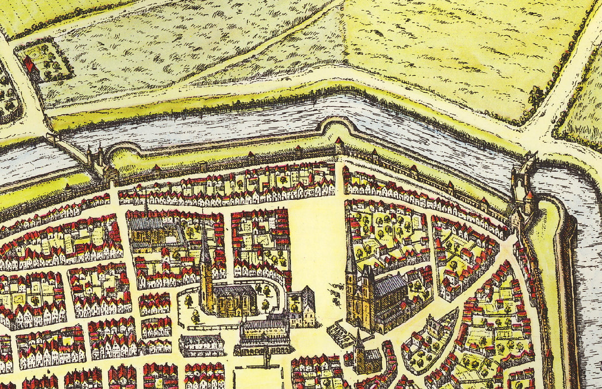 Cut of the map of Bremen printed by Frans Hogenberg in 1689